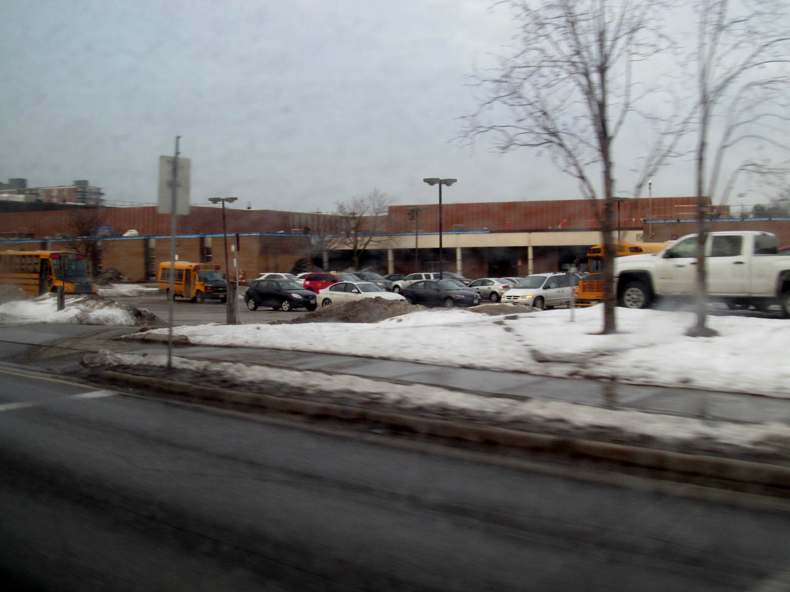 Georges Vanier Secondary School - from the 25 Don Mills bus.